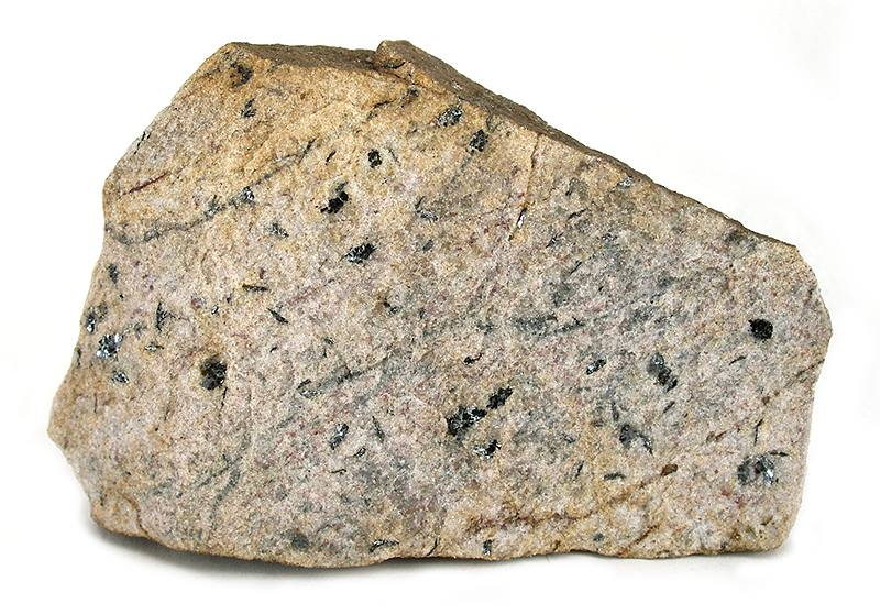 Nezilovite Locality: Kalugeri Hill, Babuna Valley, Jakupica Mts, Nežilovo, Veles, Republic of Macedonia (Locality at ) Size: small cabinet, 7.2 x 4.8 x 1.7 cm Nezilovite This extremely rare, lead, zinc, manganese, titanium, iron oxide occurs as splendent, gray, subhedral crystals, to .3 cm across, in a sandstone matrix. This specimen is from the type locality in Macedonia.